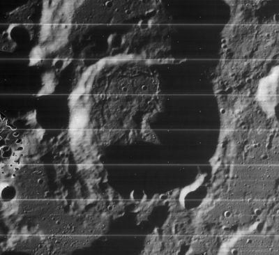 LO4-080-h3 image